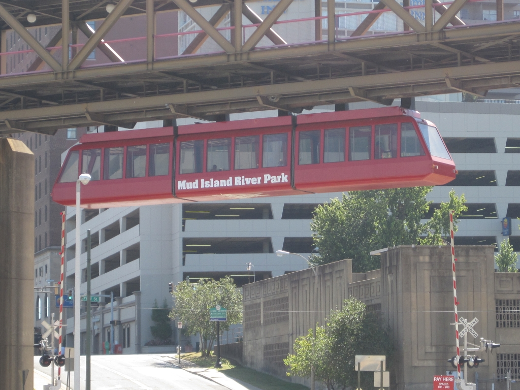 Mud Island Monorail, Memphis, Tennessee